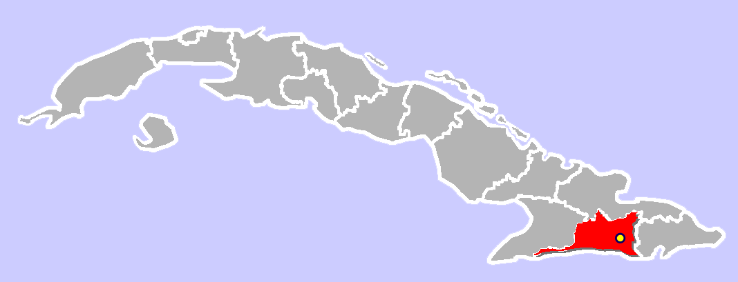 Location of San Luis, Cuba